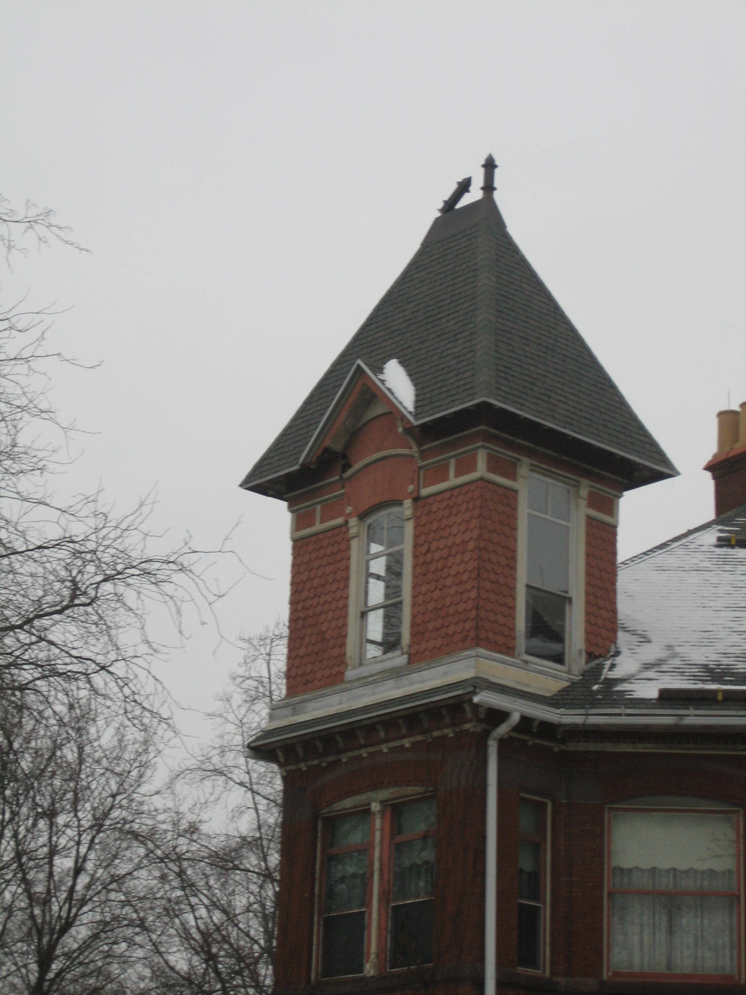 Charles O Boynton House. Sycamore, Illinois, National Register of Historic Places as part of the Sycamore Historic District.